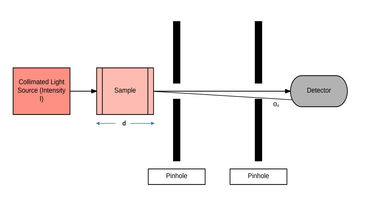 Block Diagram of Collimated Transmission Method